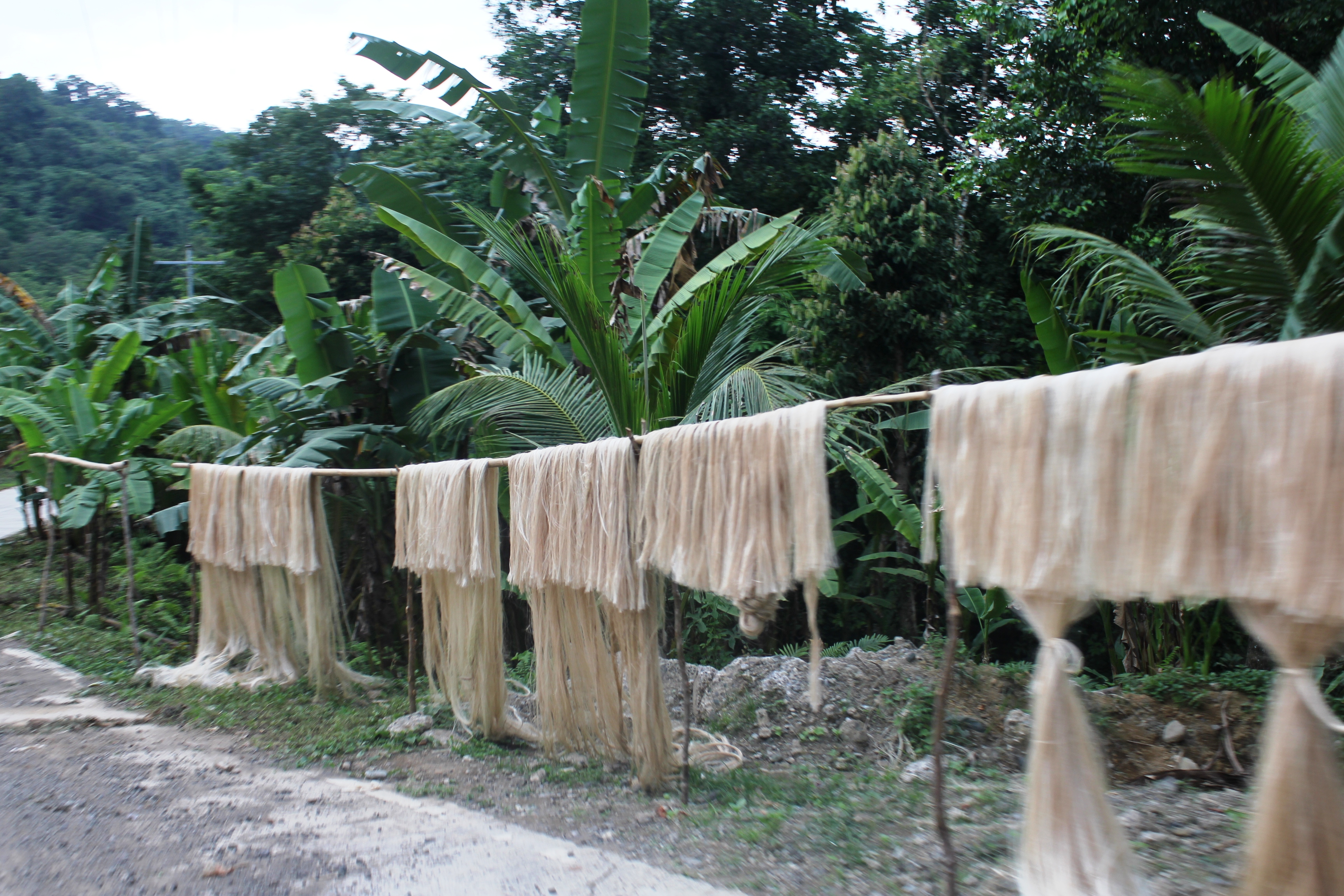 Abaca Fiber in Lagonoy, Camarines Sur